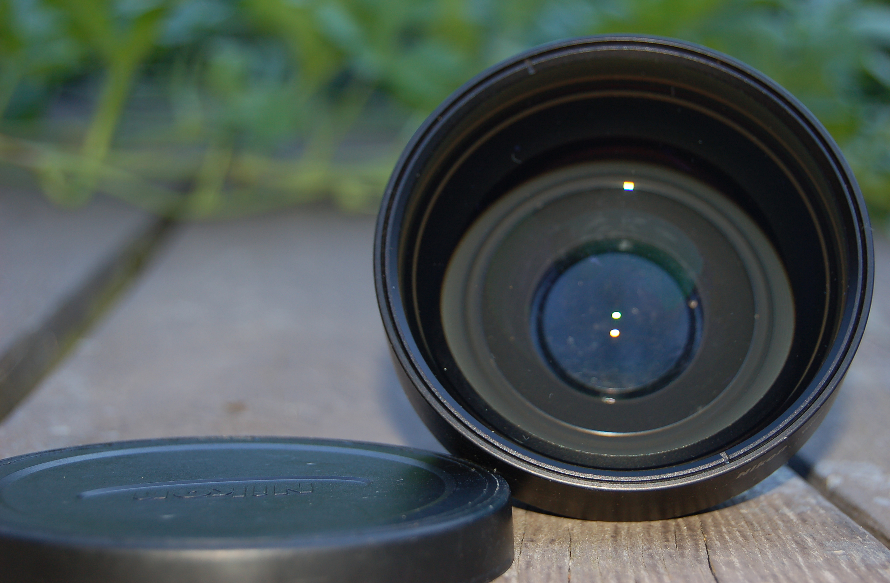 A photograph of the Nikon WC-E80 0.8x Wide Angle Lens Converter for the Nikon Coolpix 5700 and Nikon Coolpix 8700 digital cameras.